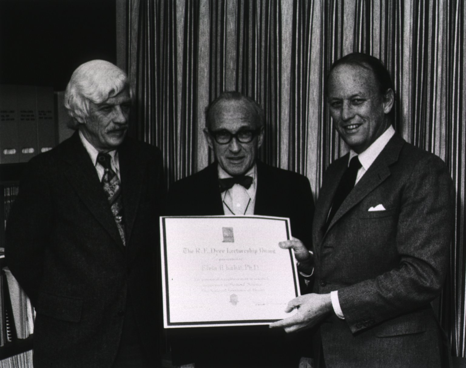 Elvin Kabat's lecture on structural and genetic approaches to the study of antibody complementarity.